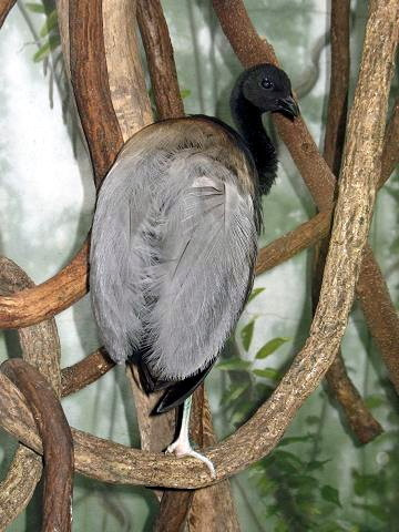 Grey-winged Trumpeter